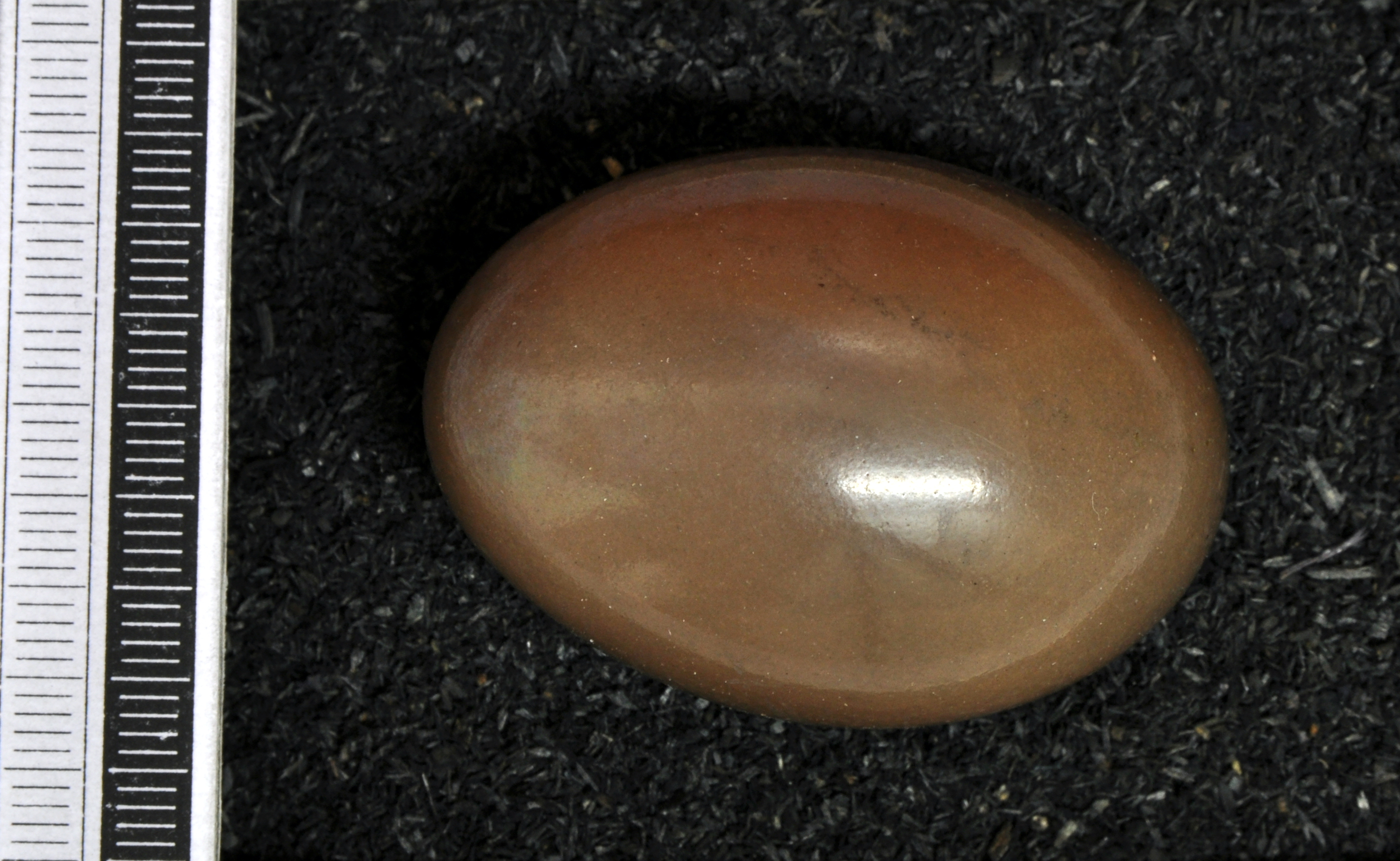 Tataupa tinamou Crypturellus tataupa , egg, Coll. Museum Wiesbaden